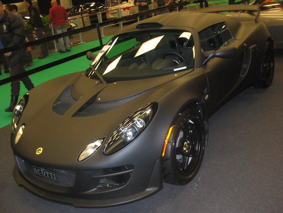 2011 Lotus Exige photographed in Montreal, Quebec, Canada at the 2012 Montreal International Auto Show.